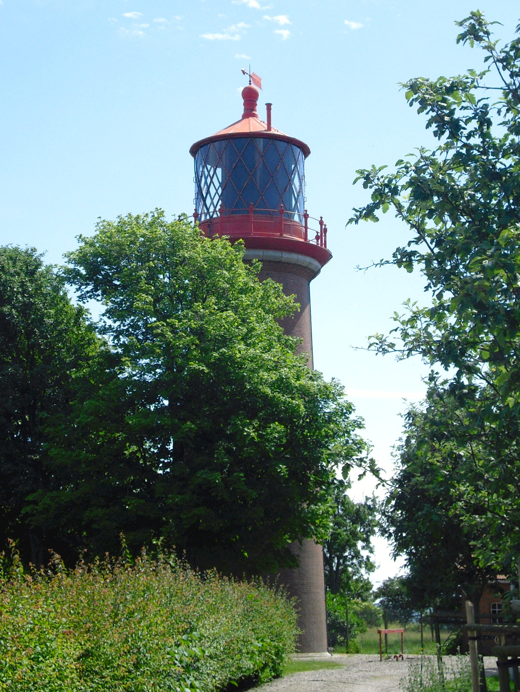 Lighthouse "Staberhuk" on Fehmarn, Germany